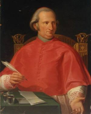 Giuseppe Albani (1750-1834), cardinal secretary of state